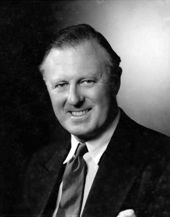 The 7th Duke of Montrose in 1967